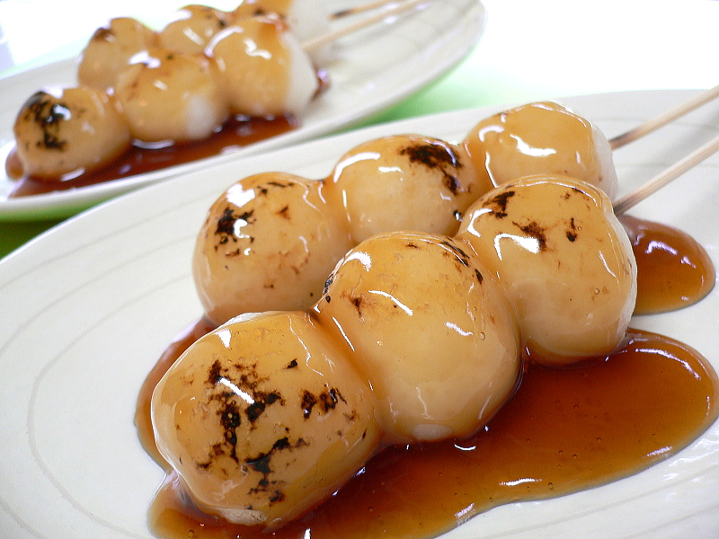 dango : dango powder, water sauce : water, soy sauce, suger, potato starch, [1]